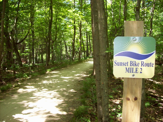 I am the original author of this photo.